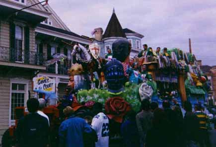 Bacchus Carnival Parade float on Magazine Street, New Orleans; photo by Infrogmation. Weekend before Mardi Gras, 1996. Image history (del) (cur) 02:40, 14 February 2004 . . Infrogmation . . 435x295 (17185 bytes) (Carnival Parade floats on Magazine Street, New Orleans; photo by Infrogmation)